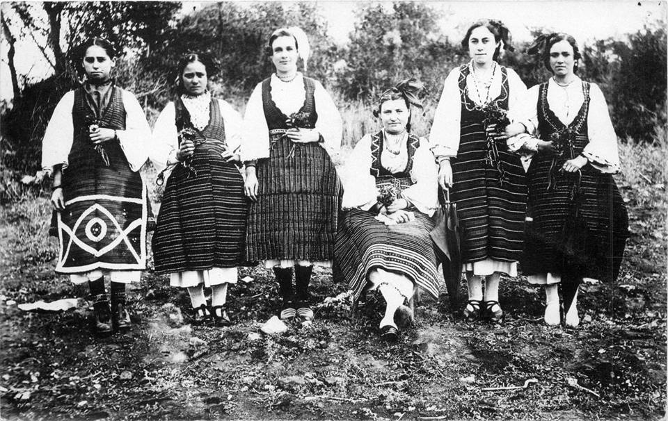 Women from Ovče Pole in national costumes